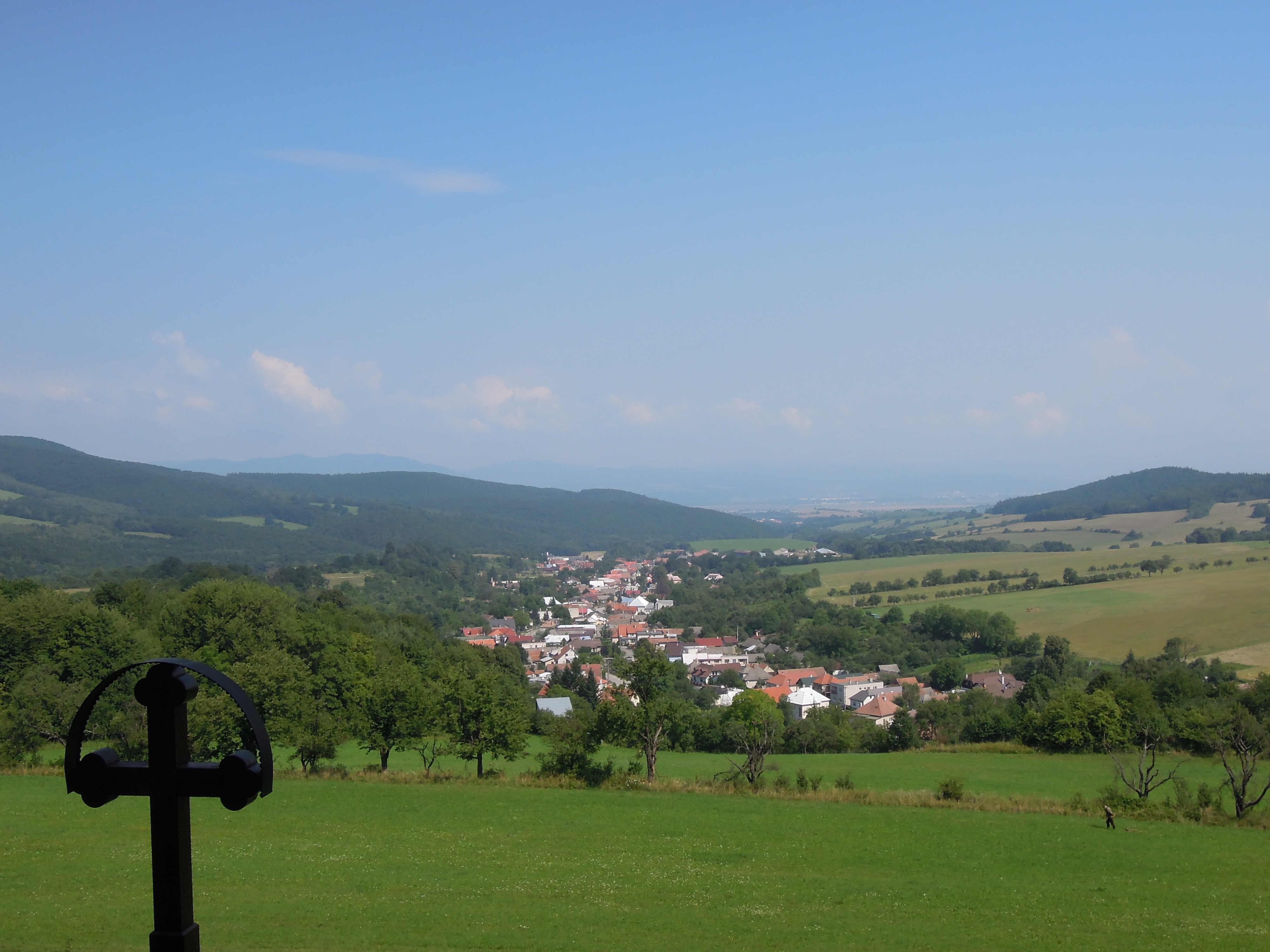 View of municipality Selec from the south. Summer 2012.